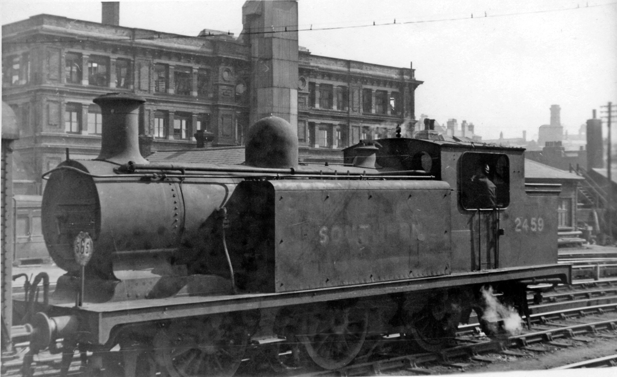 Ex-LB&SC 0-6-2T at New Cross Gate. Shunting by the station is ex-LB&SC R. Billinton class E3 0-6-2T No. 2459 (built 12/1895 as No. 459 'Warlingham', withdrawn 6/57), still in Southern livery.